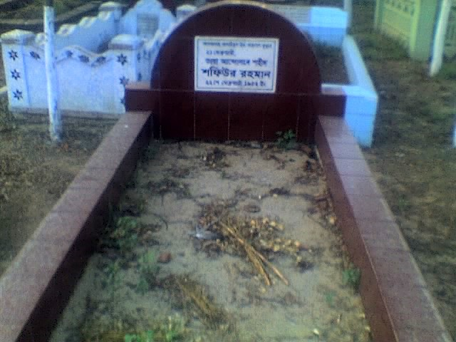 Grave of Safiur Rahman, Language activist, killed during the Language Movement of 1952.